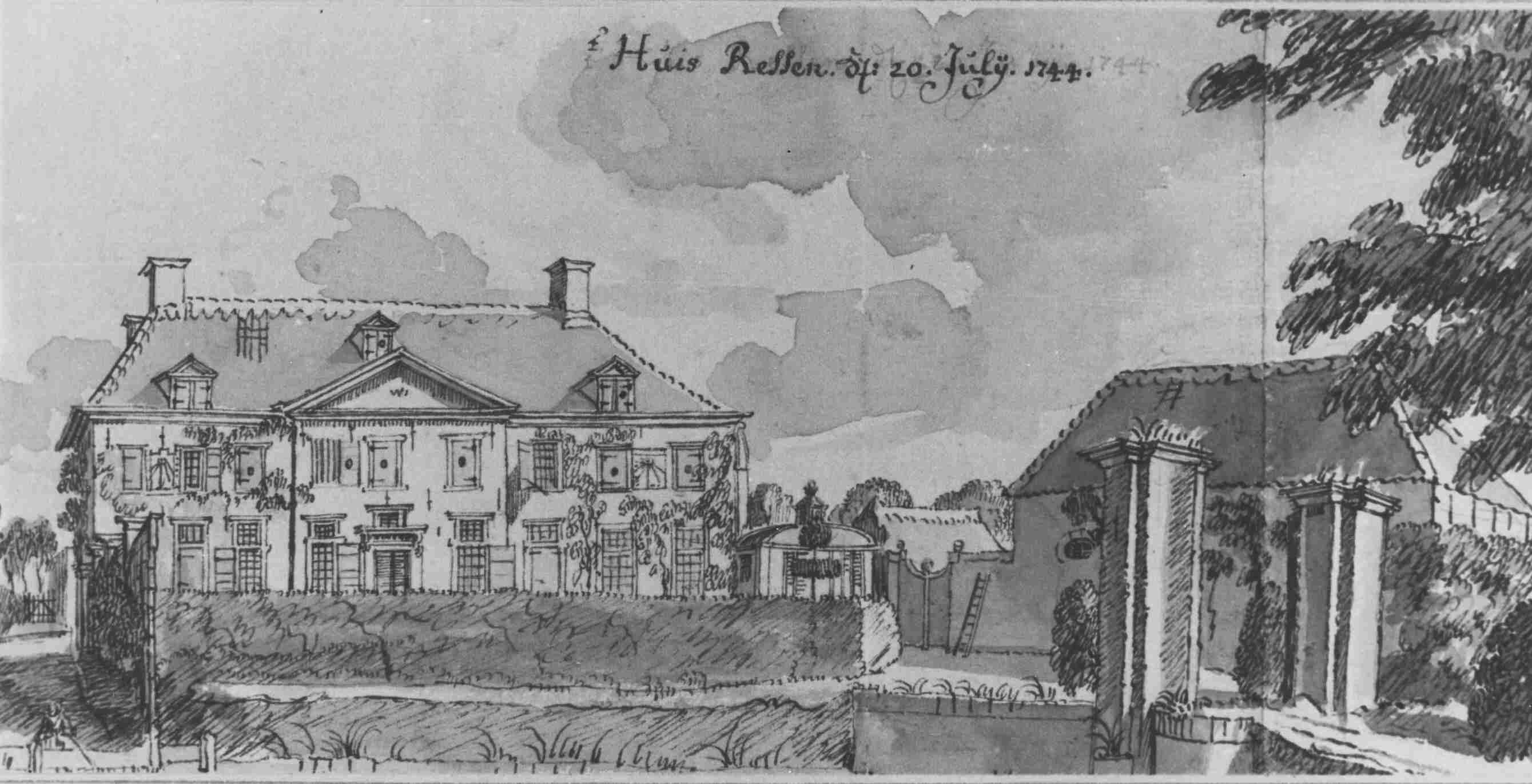 Drawing of Ressen Manor near Nijmegen city